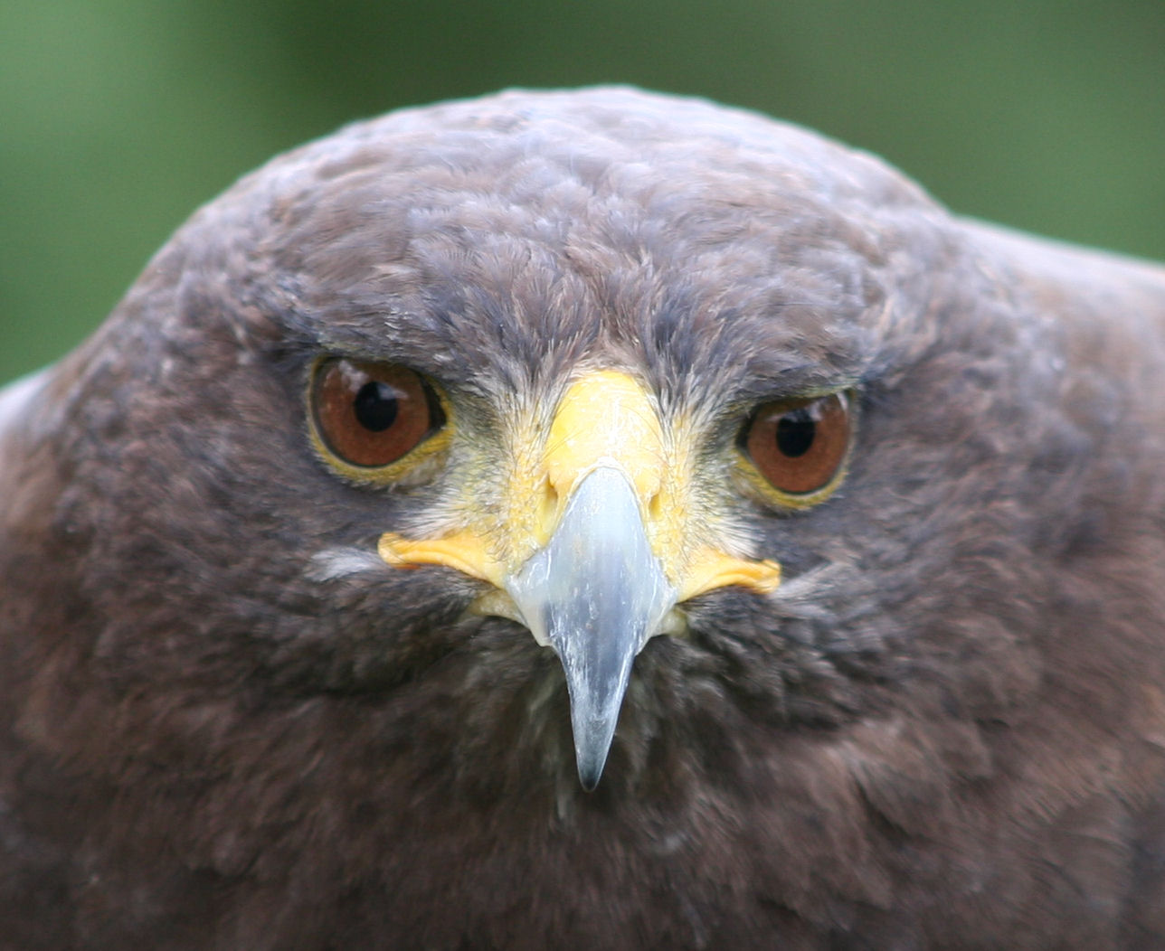 Closeup of a Harris Hawk Parabuteo unicinctus.